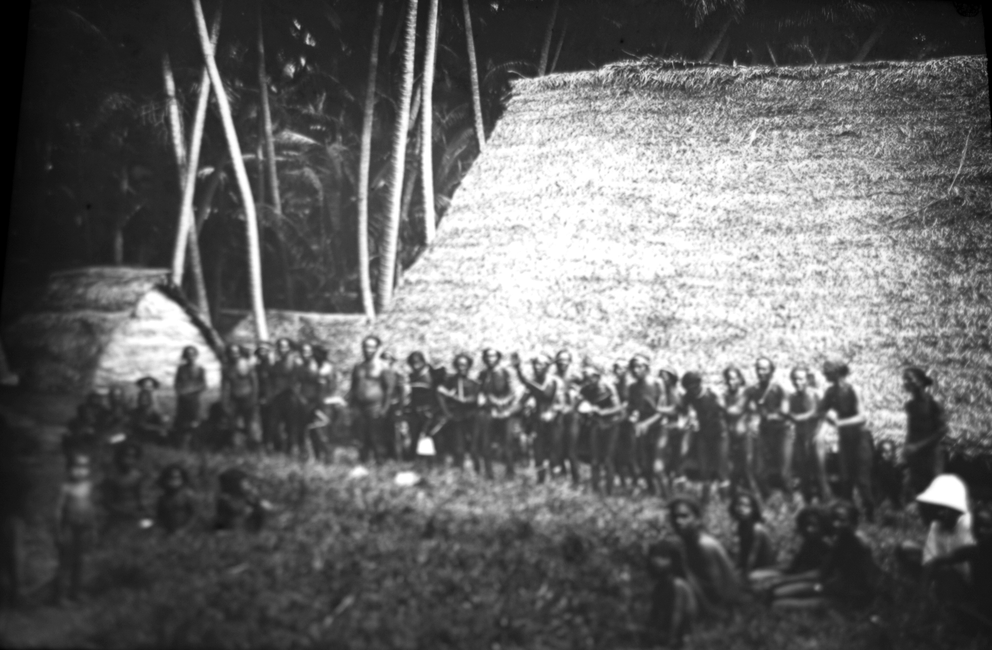 Men dancing on Tobi Island.